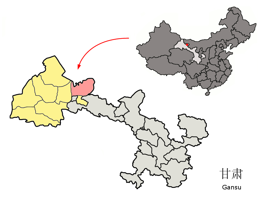 Location of Jinta County (pink) within Jiuquan Prefecture (yellow) and Gansu province of China Map drawn in september 2007 using various sources, mainly : Gansu province administrative regions GIS data: 1:1M, County level, 1990 Gansu Counties map from Jiuquan Prefecture map from .cn